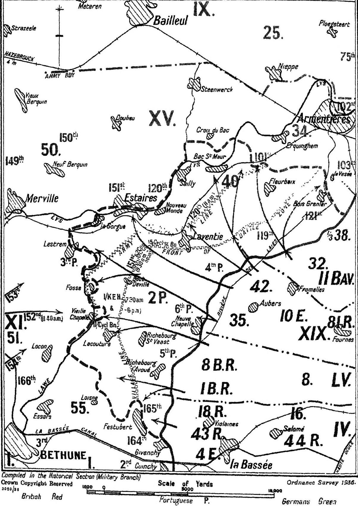 Map of the break-in on the Laventie front, 9 April 1918